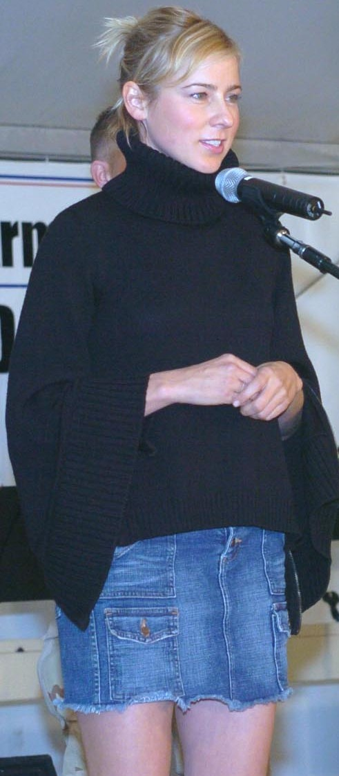 American actress Traylor Howard.